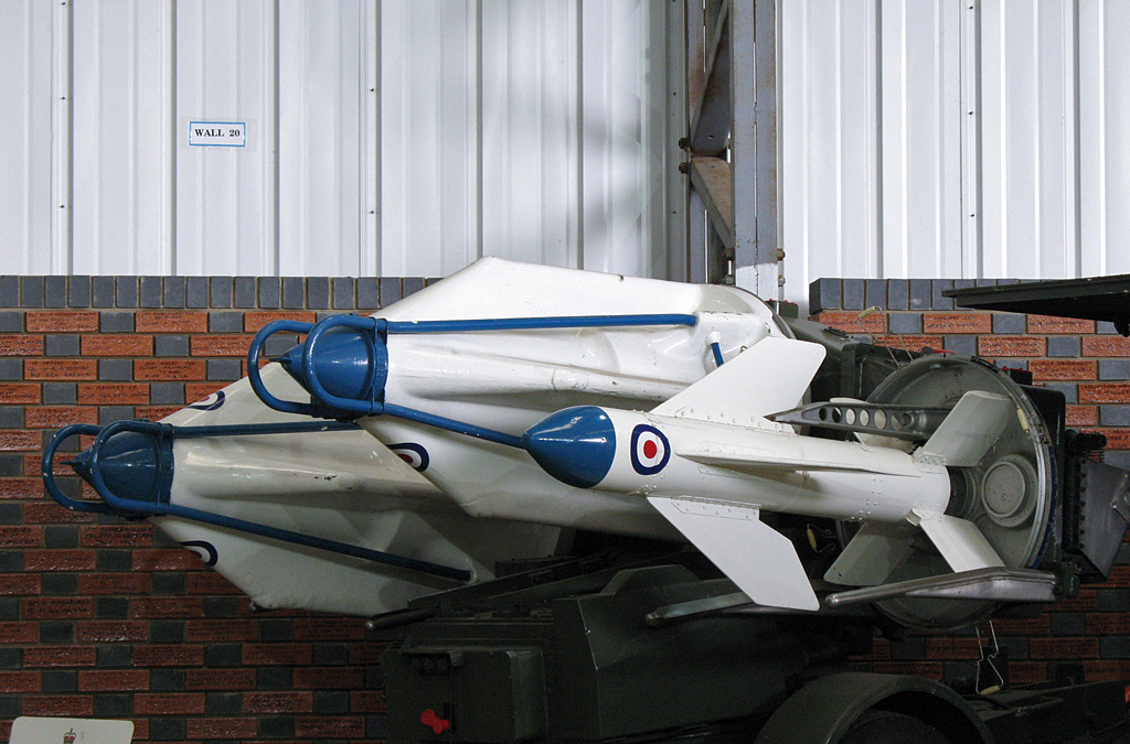 A Short Tigercat Surface-to-Air missile on its three-missile launcher photographed at RAF Elvington on the 16 of August 2007 by Brian Burnell.